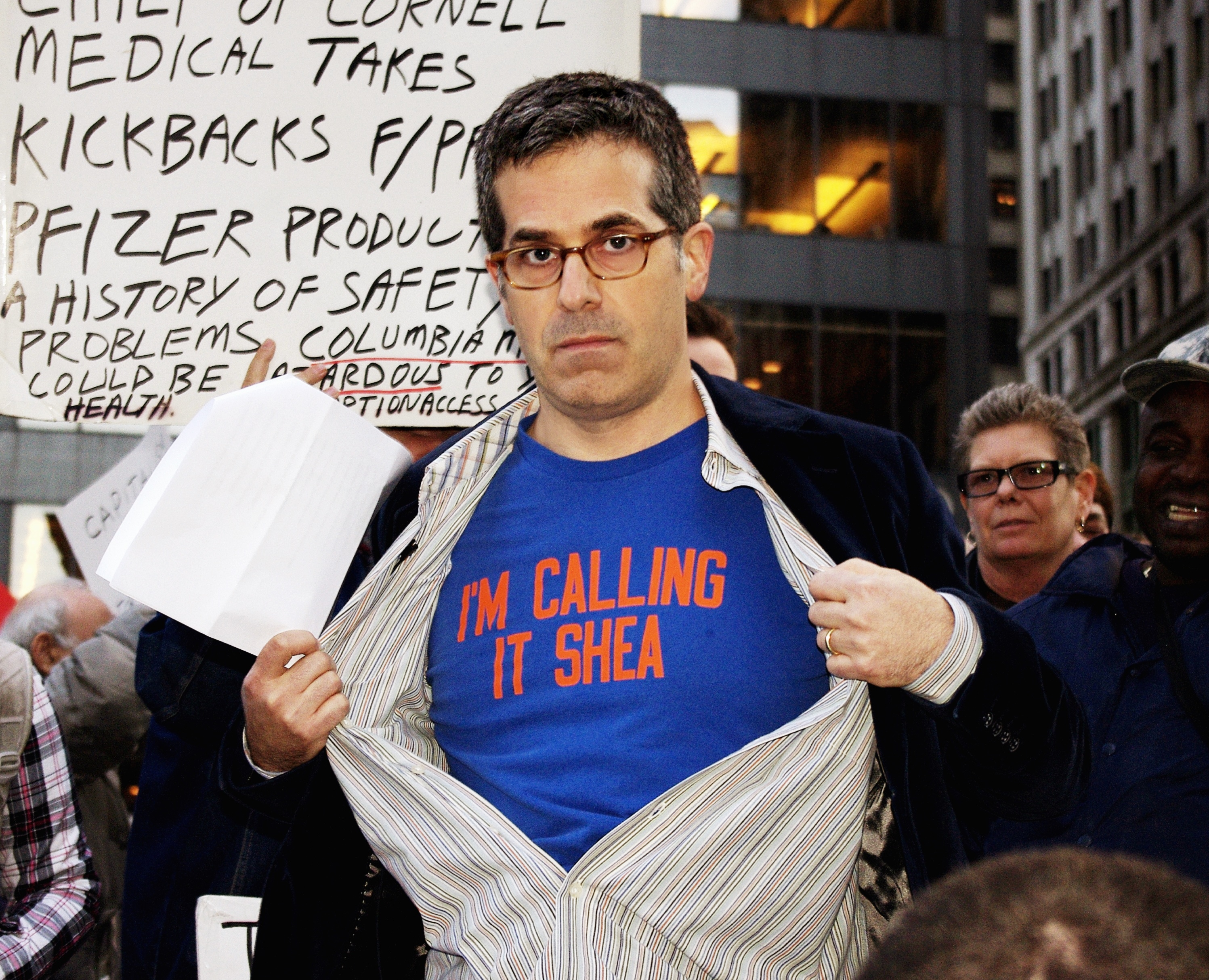 Jonathan Lethem giving a reading at Occupy Wall Street.